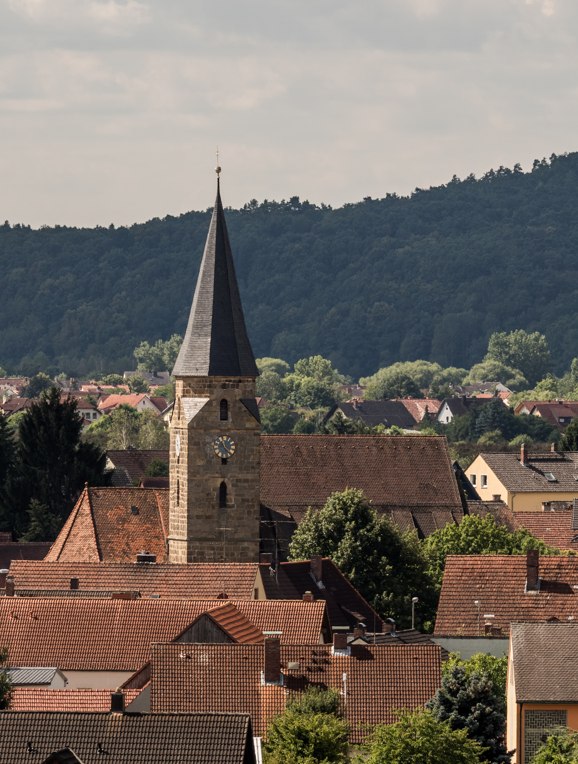 View at the church in Breitengüßbach near Bamberg